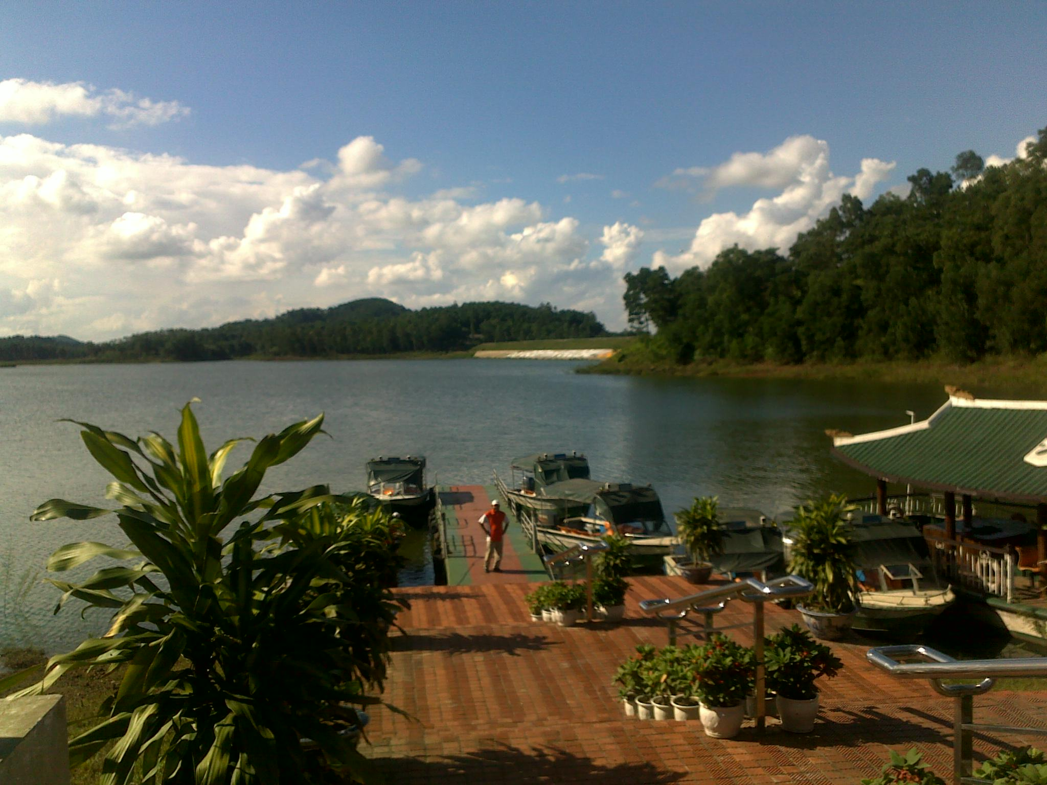 Dong Mo Lake, Hanoi